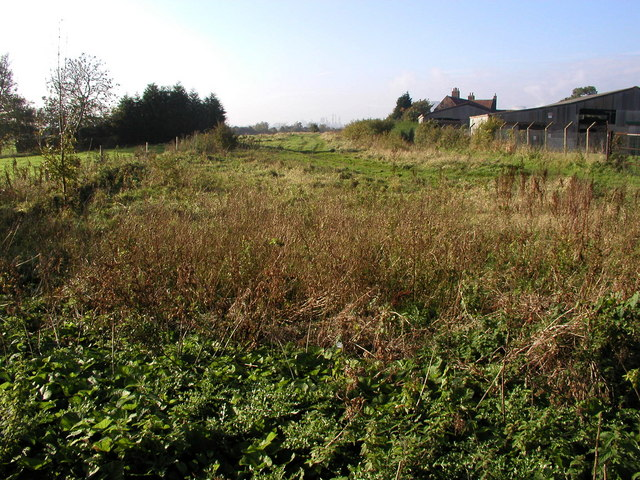 Hedon Haven, south of Hedon, East Riding of Yorkshire, England.This is the course of the former navigable Hedon Haven (canal) near Sheriff Highway. It was finally filled in in the late 1970s after silting up very badly along its course from the River Humber some two miles away to the west. Recently, ambitious plans have been put forward to re-open the Haven as a viable waterway again at a cost of £17M+! Unfortunately, since it was filled in, Hedon Bypass was built across the former course of the Haven, and this would form a very difficult barrier to overcome for re-instatement of this waterway.